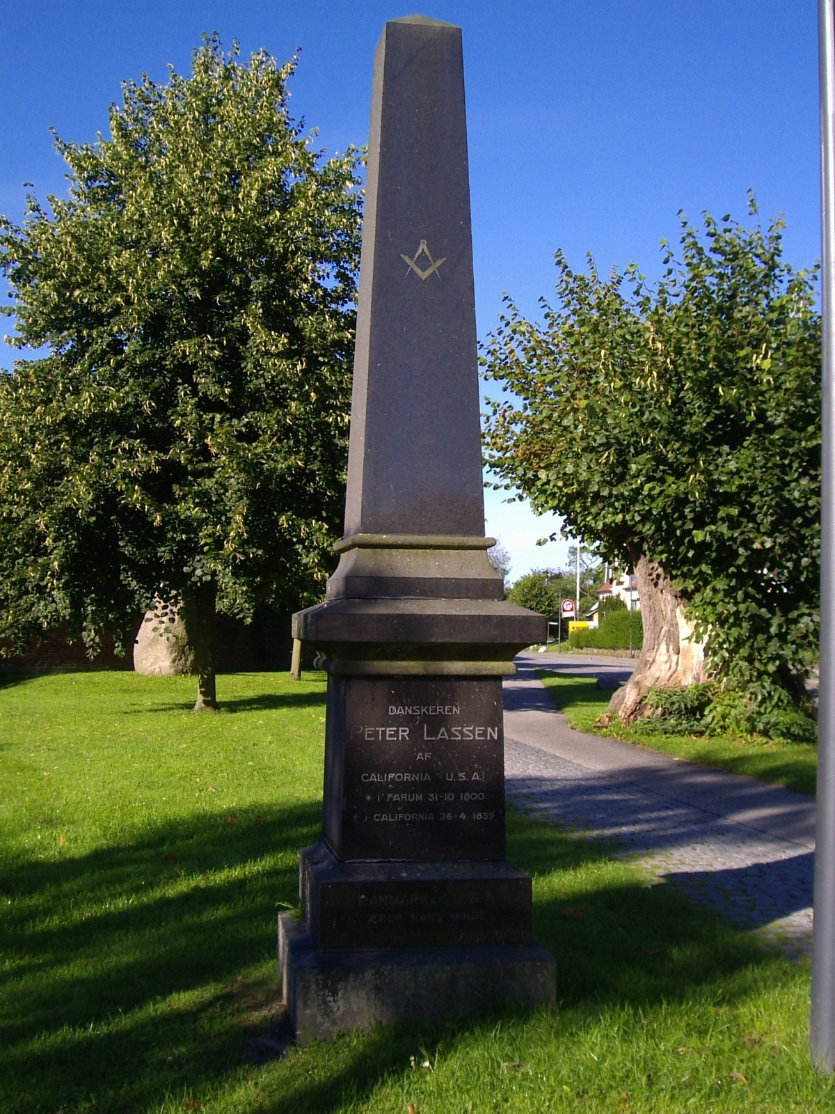 Memorial for Peter Lassen in Farum, Denmark. The inscription is seen and translated on Image:Peter Lassen inskription.jpg